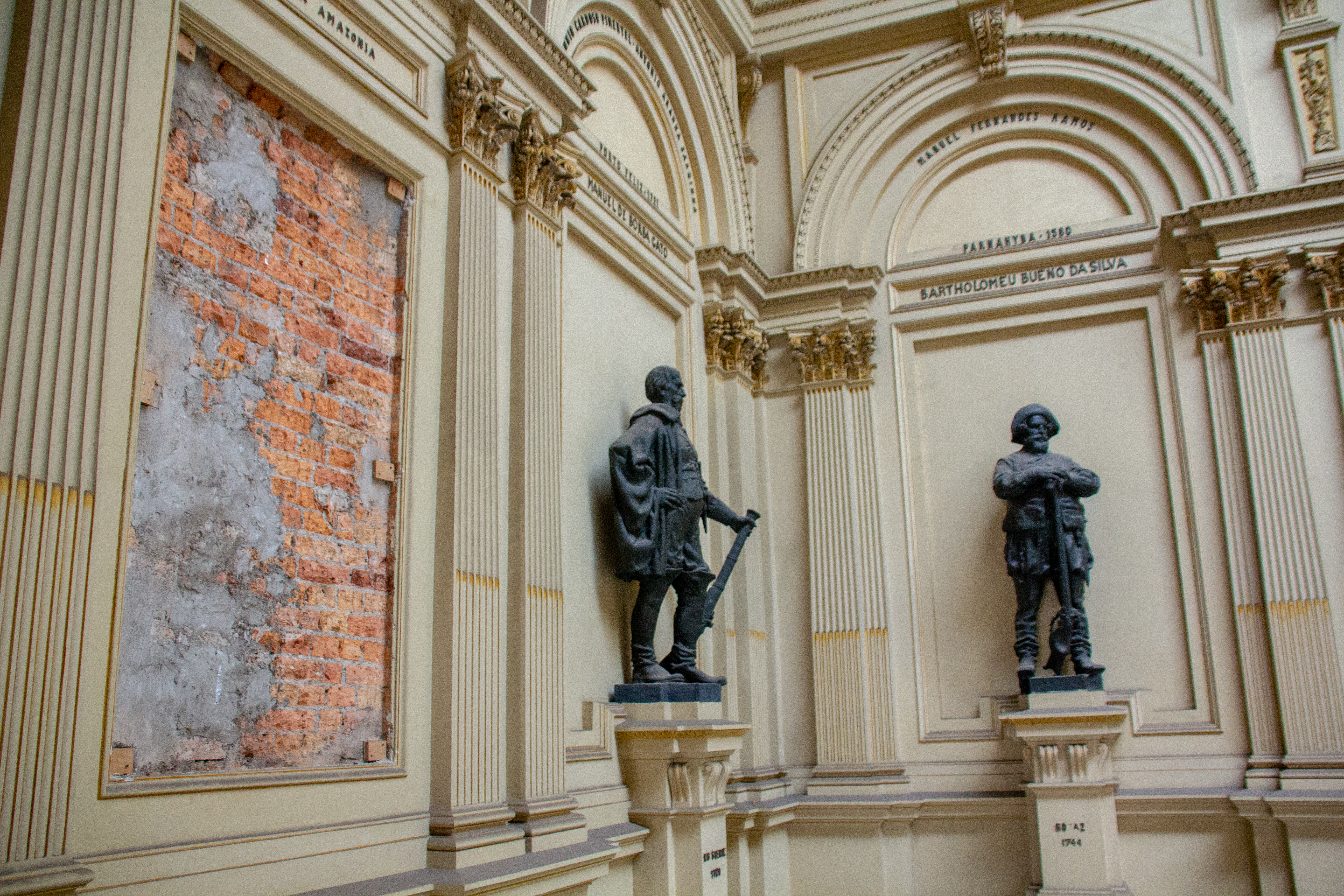 Backstage tour of the Museu do Ipiranga, University of São Paulo, Brazil